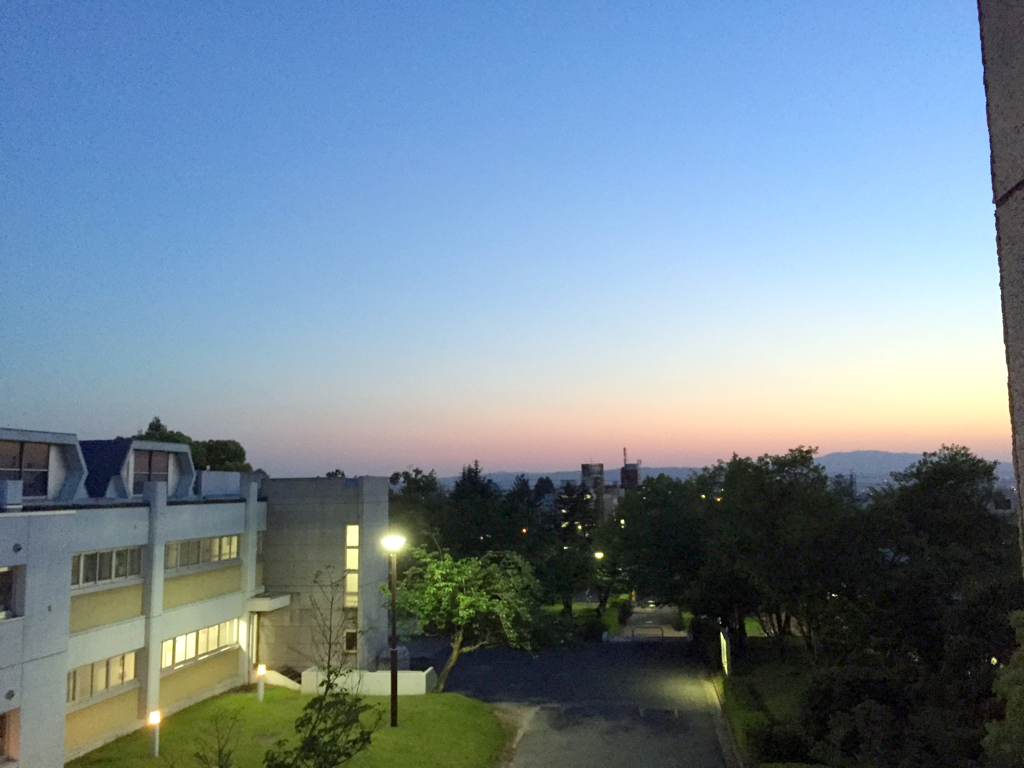 Sunset viewed from the Campus of Nara University of Education.